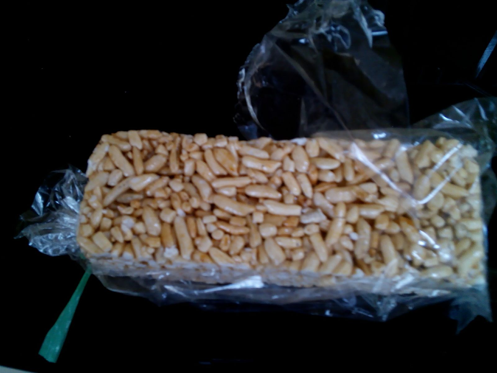 Brondong or jipang, a caramelised rice cracker, made from popped rice or fried rice, coated and pressed together with caramel paste. From Java, Indonesia.